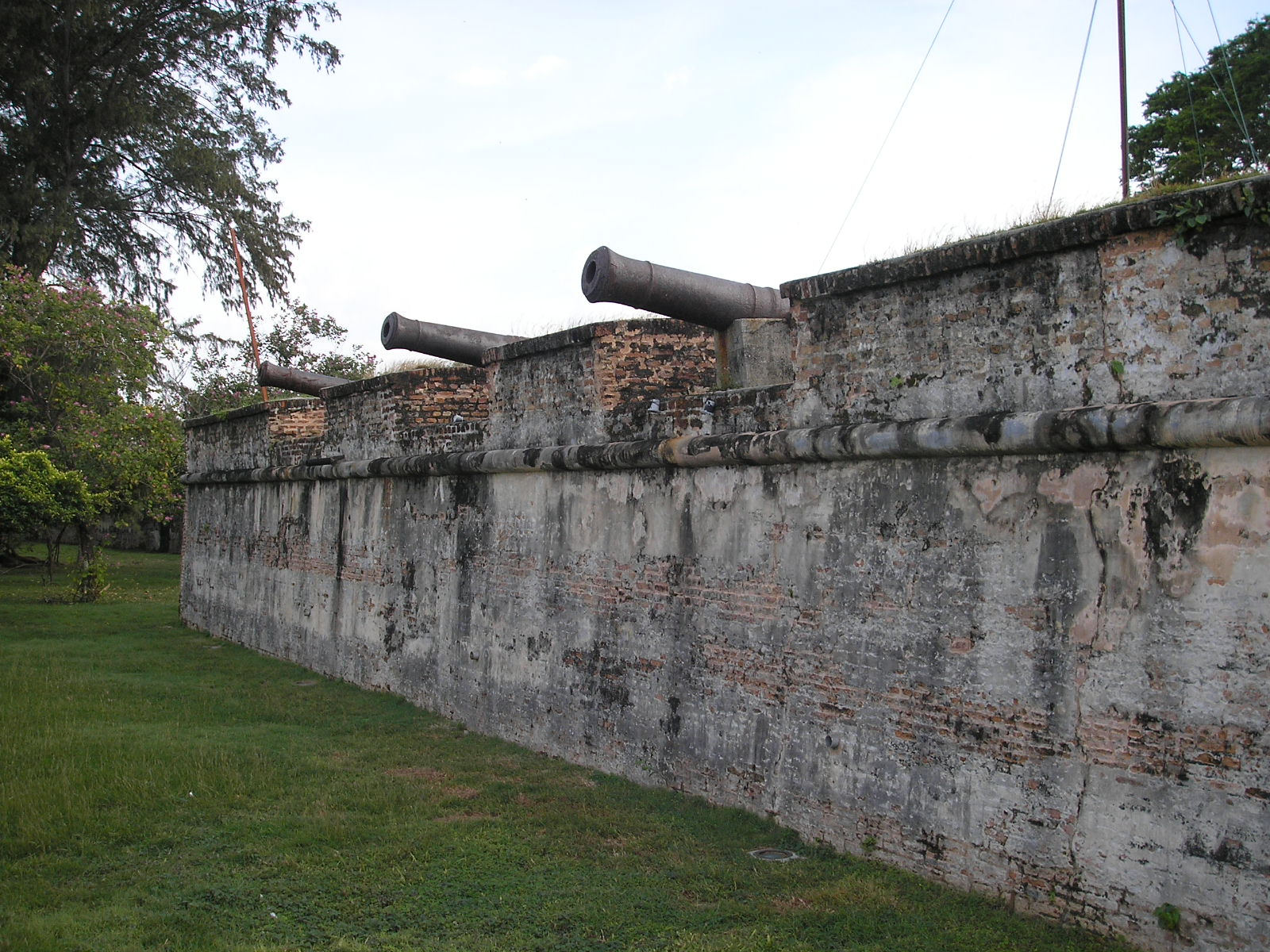 Image of the Fort Cornwallis in George Town, Penang.